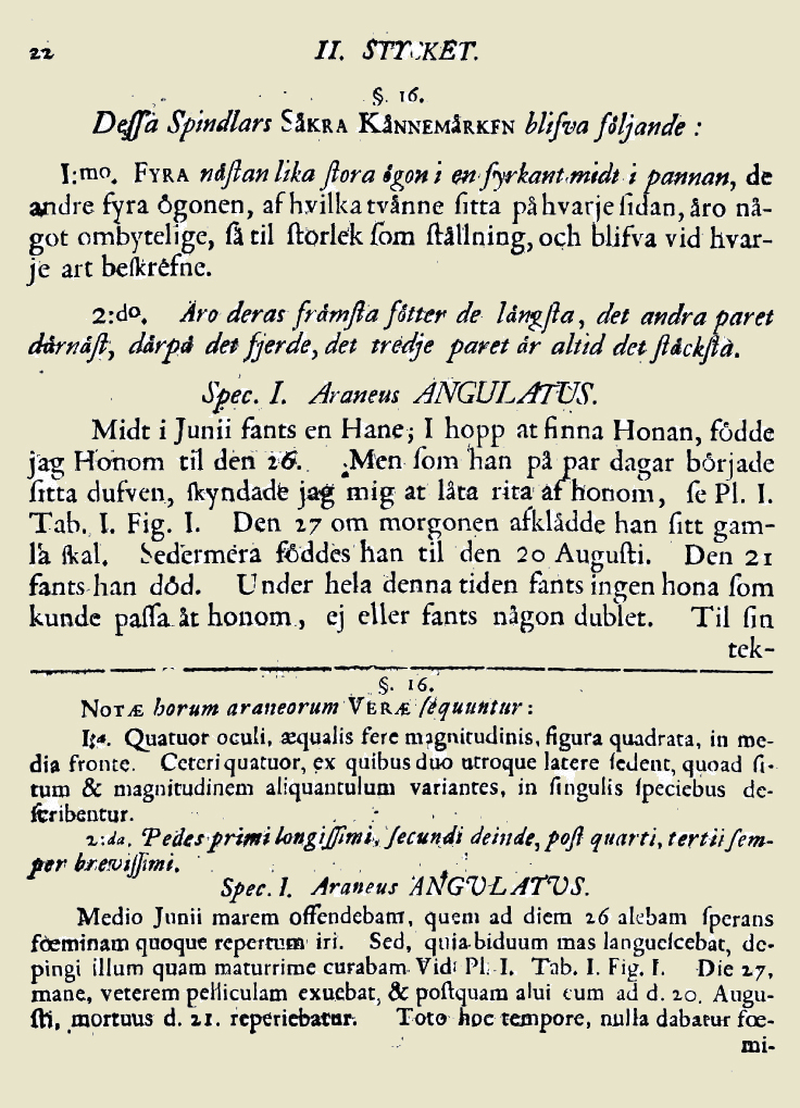 Page 22 of Svenska Spindlar published in 1757 by Carl Clerck, with the original description of Araneus angulatus Clerck, 1757. This is the first scientifically accepted description of an animal, in which a binominal name was made available. Digitized in 2004 from an original copy of the 1757 edition held by Göttingen State and University Library, signature . Uploaded by Francisco Welter-Schultes, I personally checked that the original copy was identical with the digitized version.